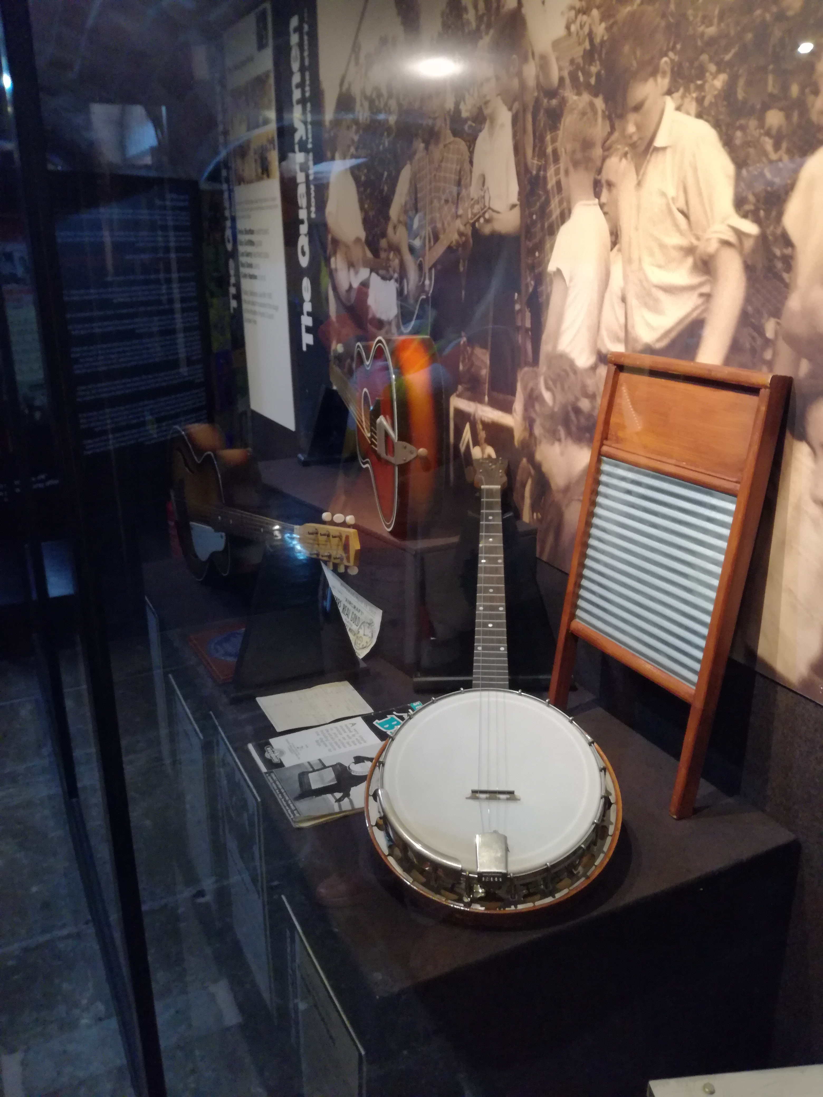 The Beatles Story Museum, Liverpool. Quarry Men instruments. Rod Davis' banjo and Pete Shotton washboard.